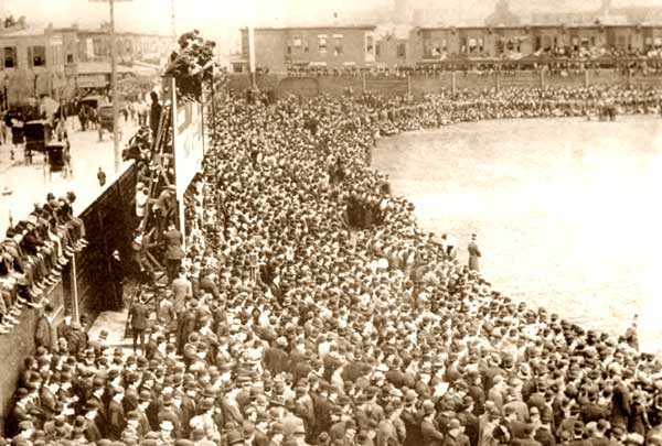 Fans on rooftop bleachers on 20th Street (i.e. in the background) watching the opening game at Shibe Park in 1909 (as per Take Me Out to the Ball Park, published by Sporting News, 1987 edition, p.211). Rooftop bleachers eventually inspired the raising of the right field fence in 1932.